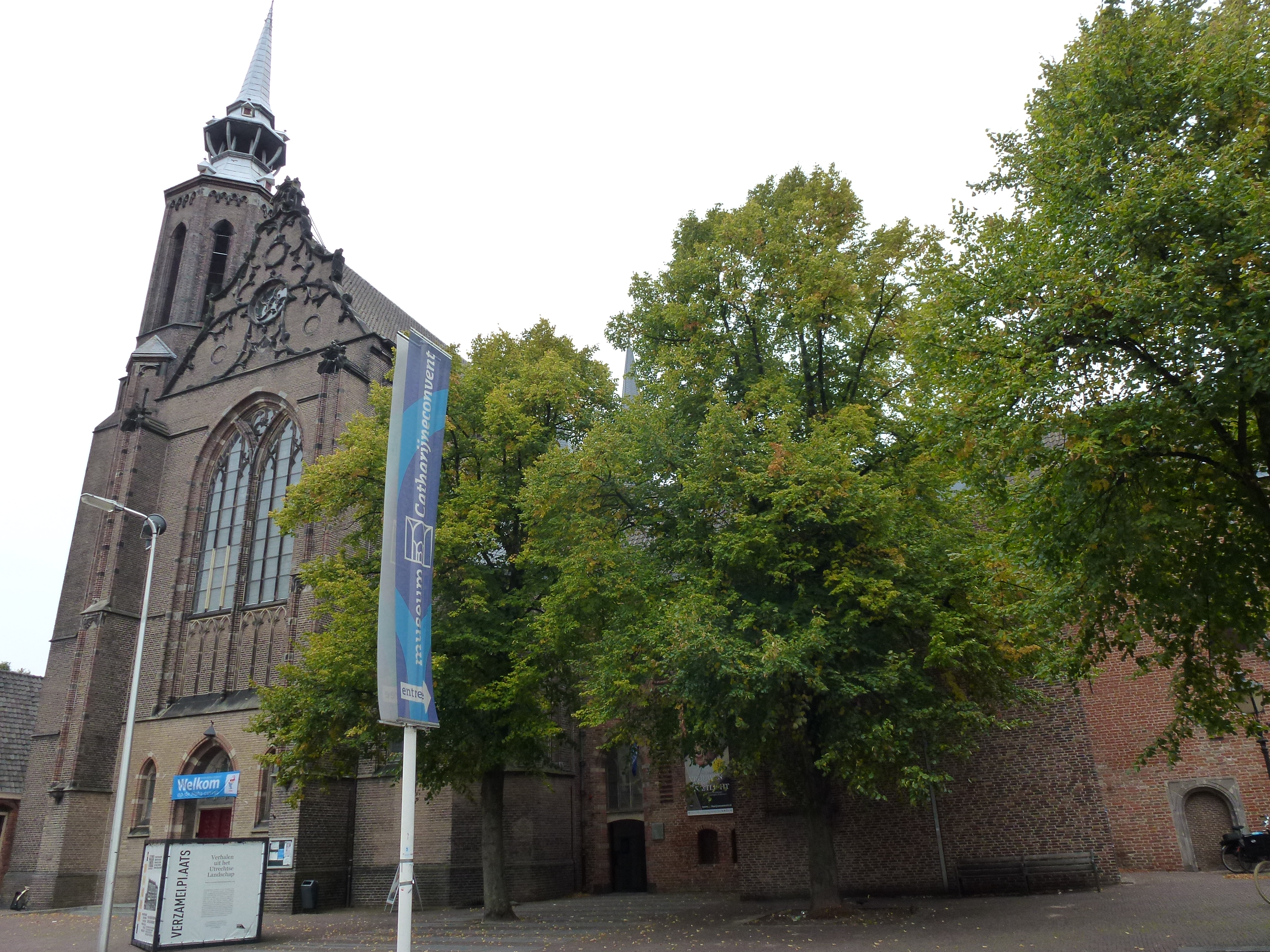 Utrecht Sint-Katharinakathedraal (2) 78″ N, 5° 07′ 25.46″ E